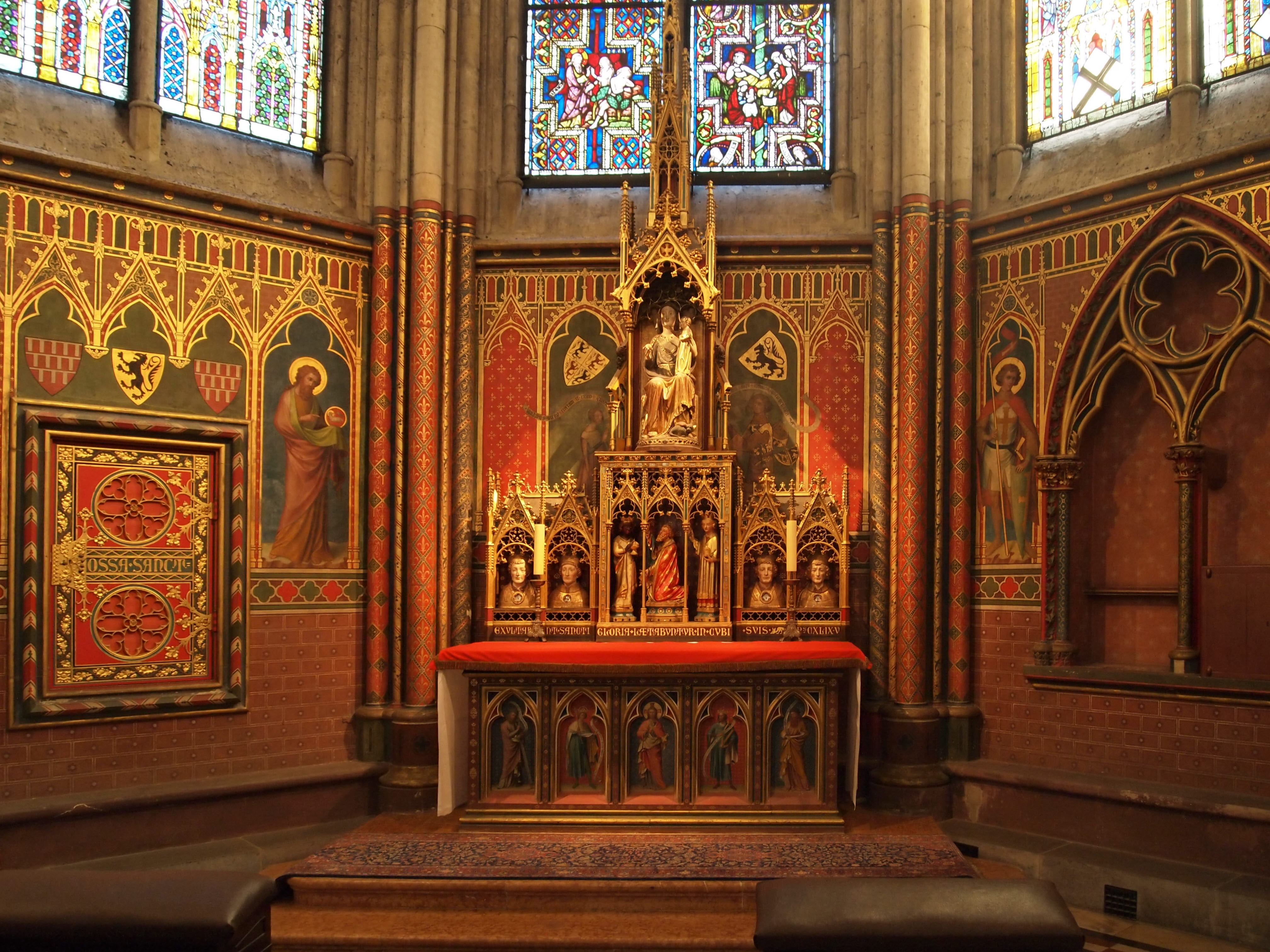 Neo-Gothic furnishings of the axial chapel, 1892